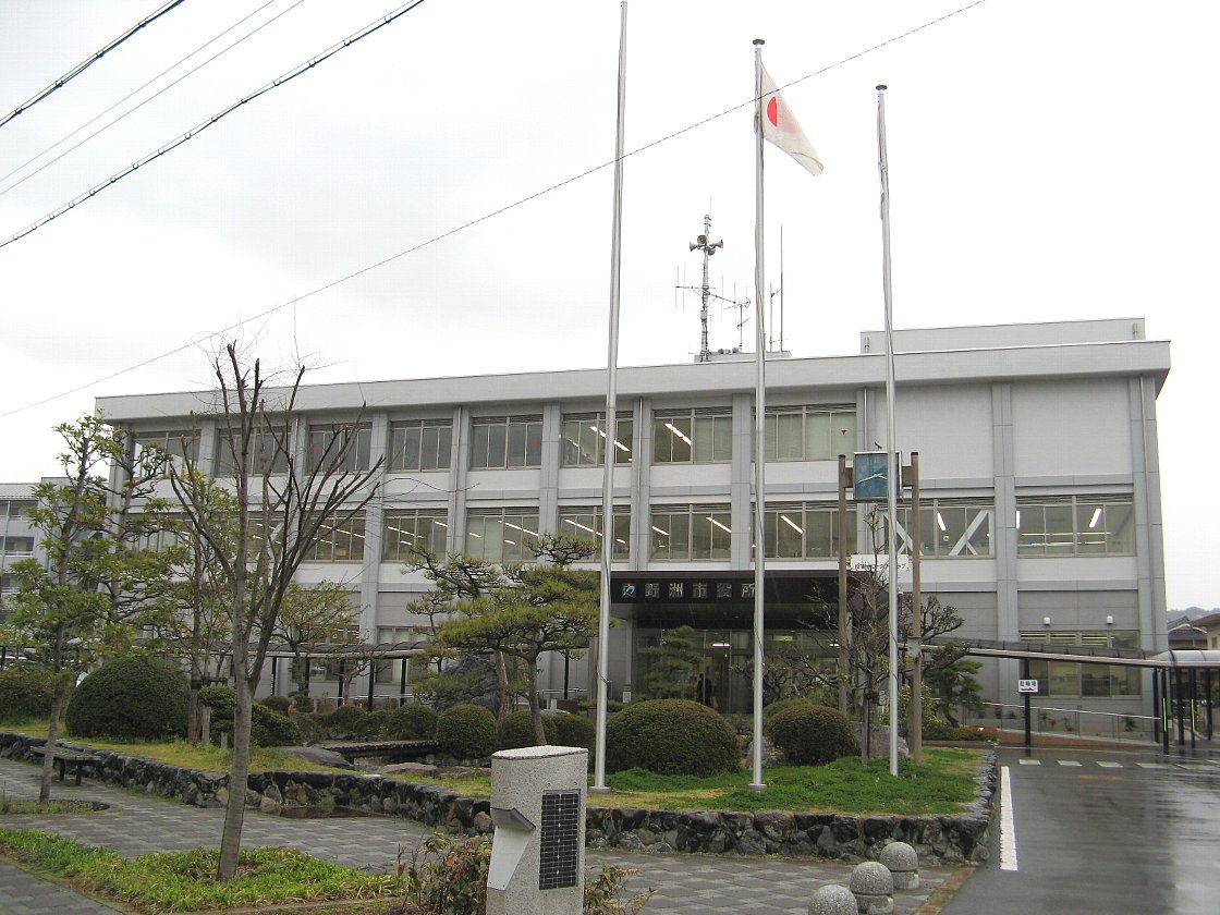 Yasu City Hall in Shiga Prefecture, Japan